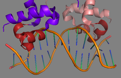 TetR in complex with its target DNA sequence. Each monomer of TetR is shown in purple or salmon. The helix-turn-helix motifs are shown in deep red. PDB: 1QPI